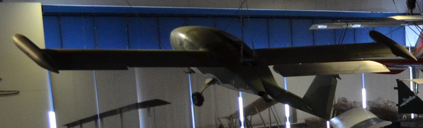 Caproni Vizzola C-22J jet training aircraft on display at the museo dell'aeronautica Gianni Caproni in Trento, Italy.